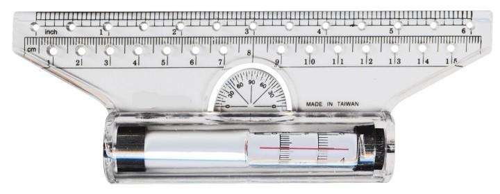 picture of rolling parallel ruler